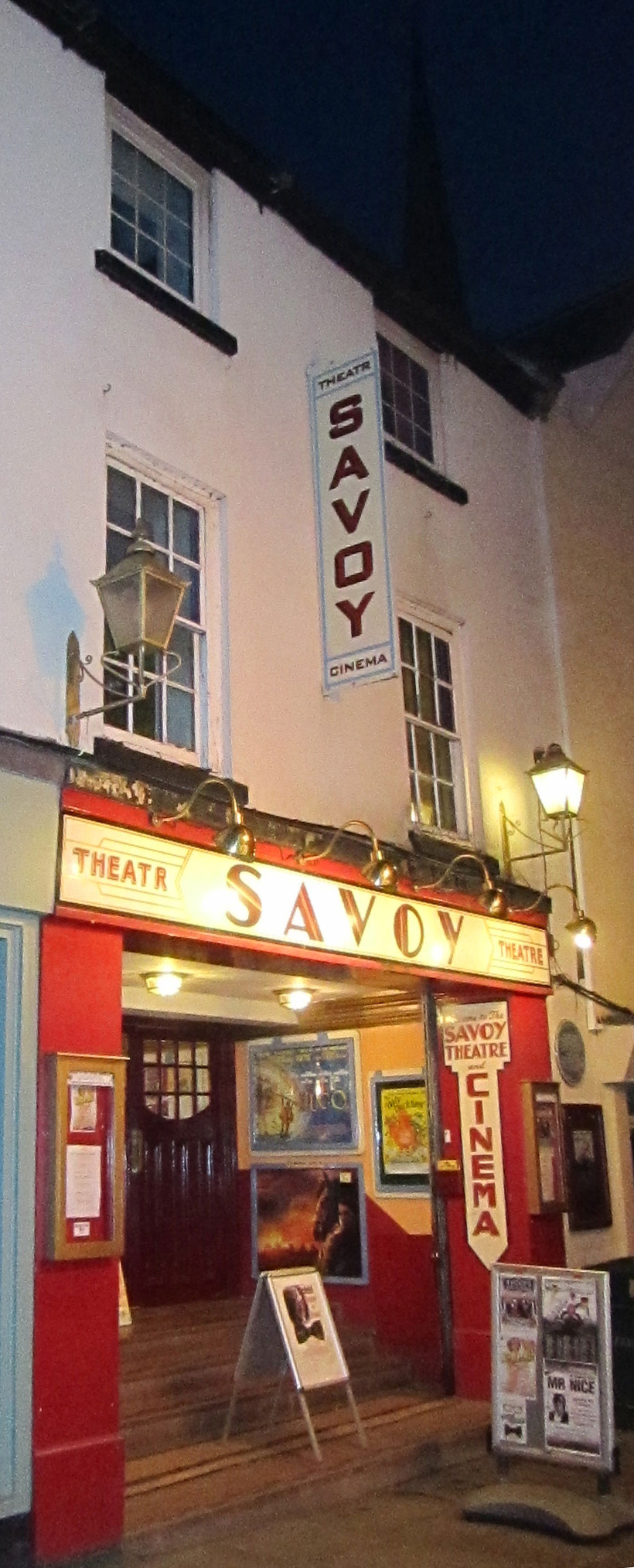 Savoy Theatre Monmouth, Exterior at night